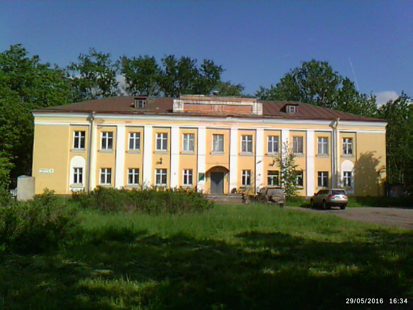 The main building of bird-factory Krasnye Zori